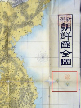 Korean old map